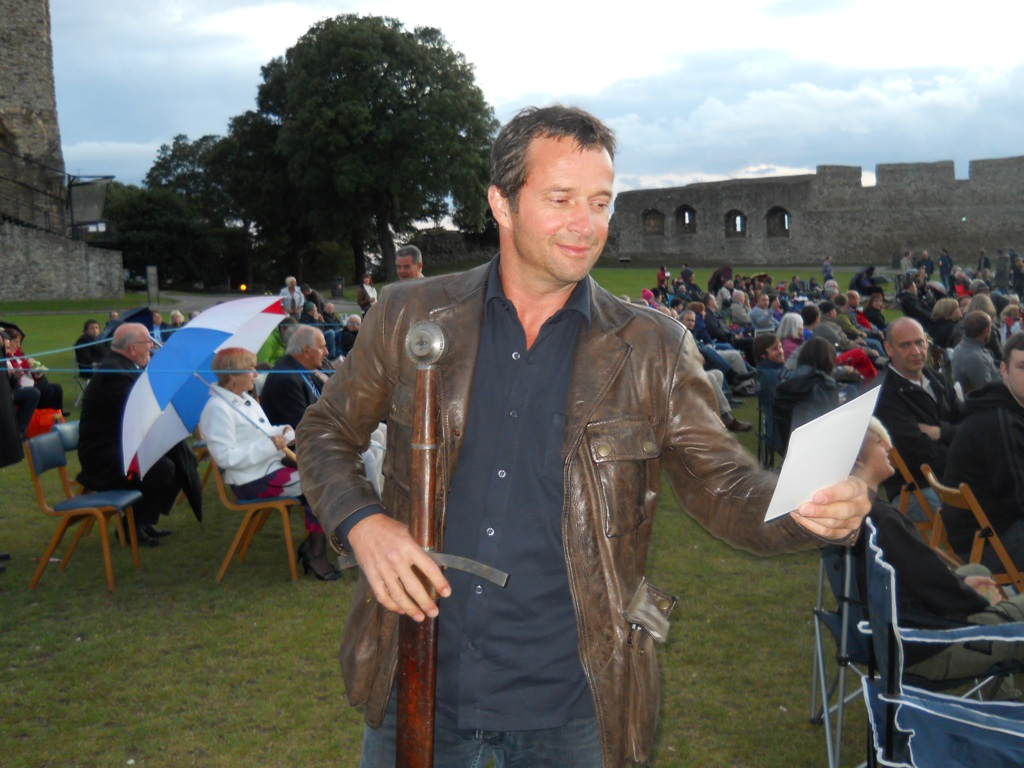 James Purefoy, Ironclad Screening, Rochester Castle